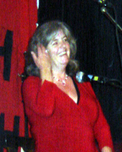 Photograph of singer, taken by me.